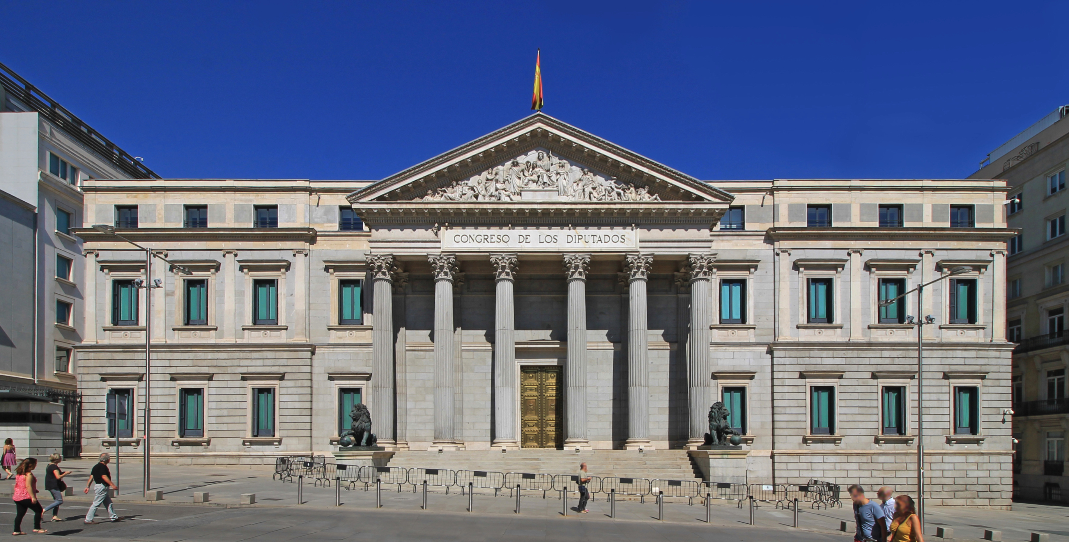 Palacio de las Cortes (Inventory)Native namePalacio de las Cortes de MadridLocationMadrid, Spain.Coordinates40° 25′ 00″ N, 3° 41′ 59″ W Established1843–1850Web page control : Q9054619 VIAF: 173679168 ULAN: 500302409 LCCN: sh2013000847 GND: 4228303-6 BNE: XX189659 WorldCat institution QS:P195,Q9054619